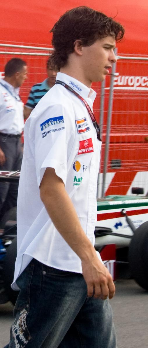 Javier Villa as a GP2 Series driver at the 2008 European Grand Prix.